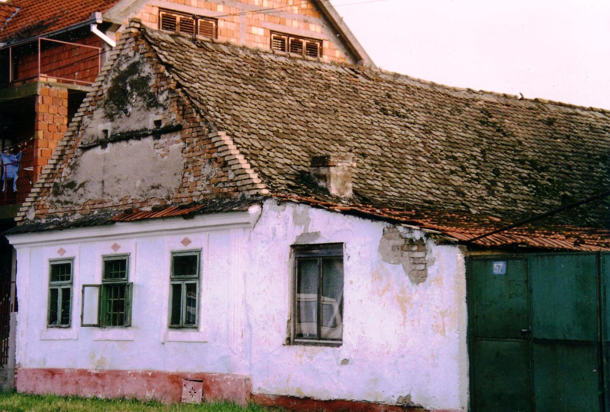 Jabuka village, Vojvodina, Serbia